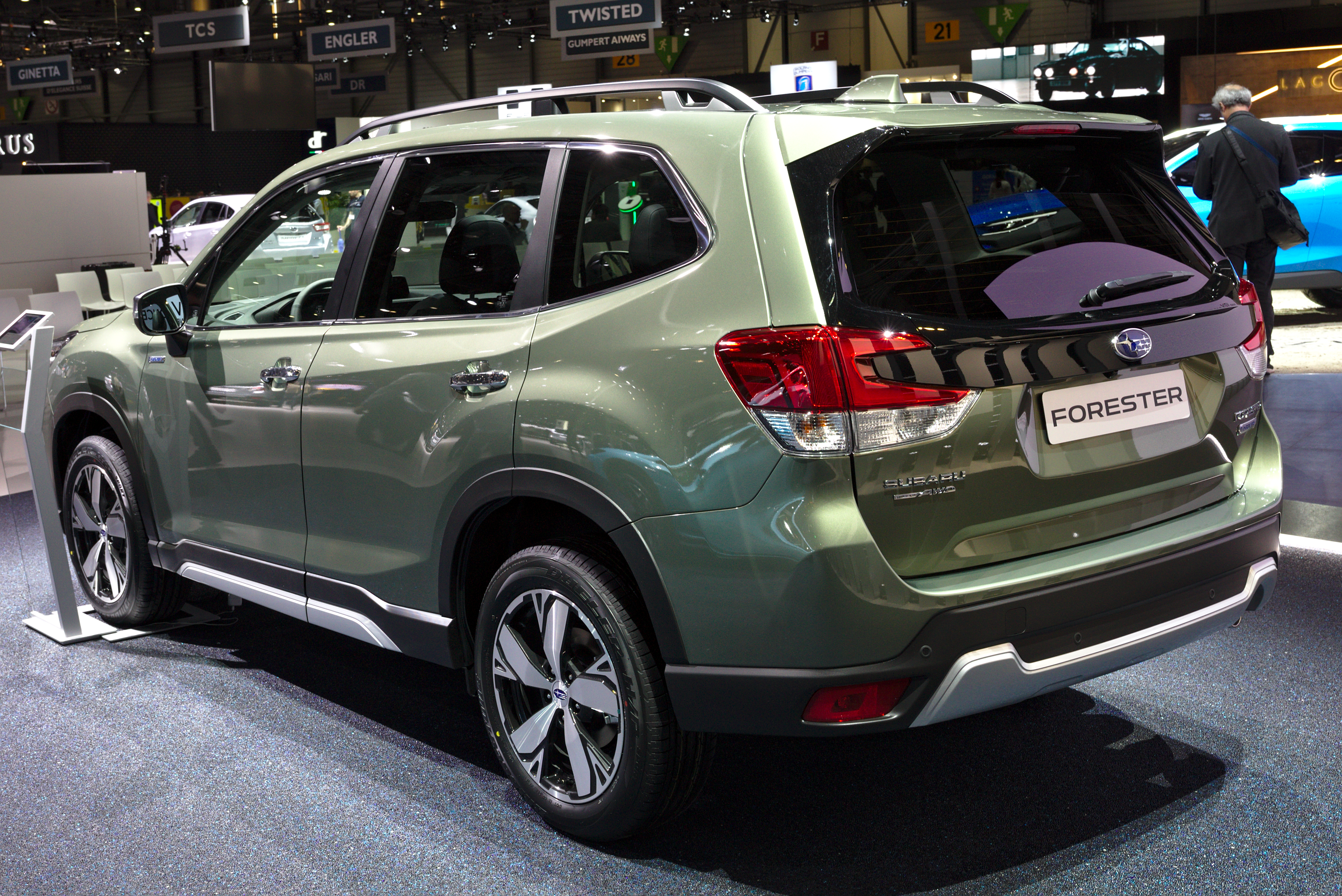 Subaru Forester at Geneva Motor Show 2019